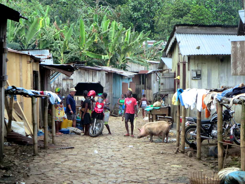 Local life unfolds on a sidestreet in the market area of Angolares, a coastal village on the southeast side of Sao Tome Island, São Tomé and Príncipe.